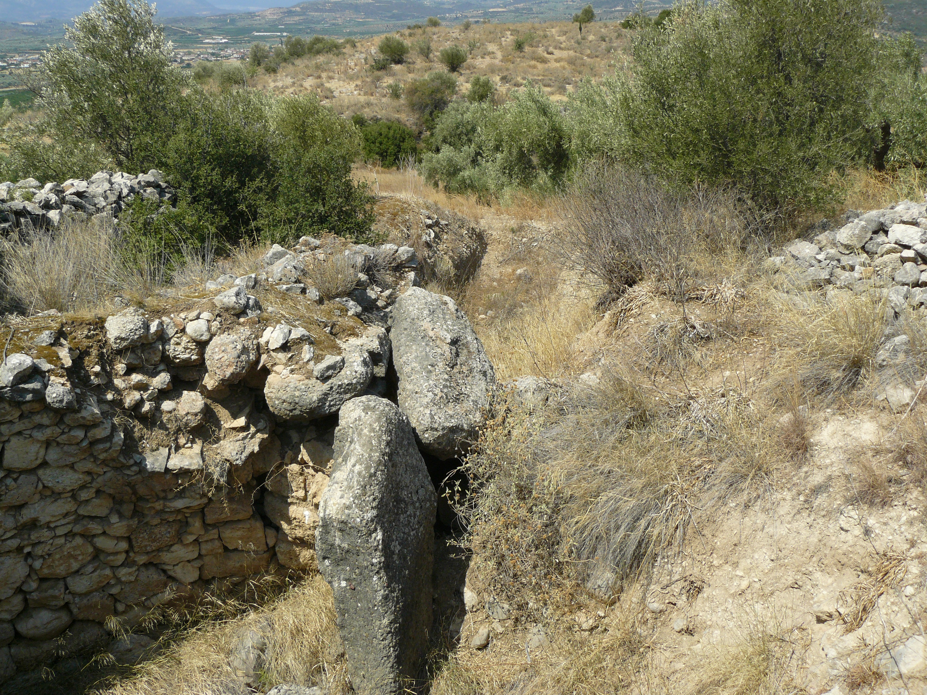 Mycenae: Tholos tomb called Cyclopean Tomb.